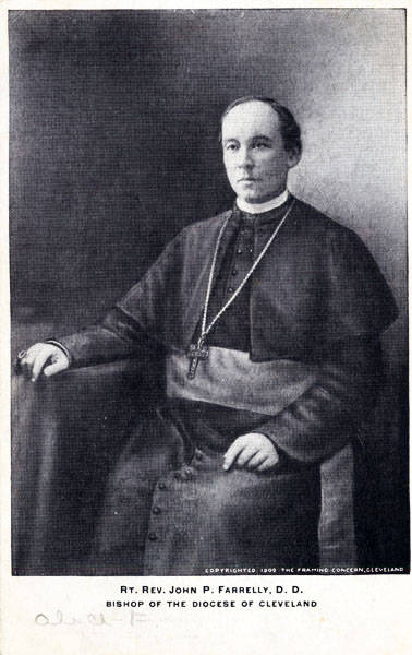 Bishop John Farrelly's Consecration photo